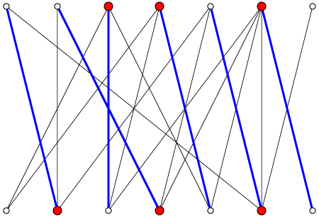 König's theorem (graph theory) states that any bipartite graph has a maximum matching of equal size to a minimum vertex cover. This image depicts a bipartite graph with 14 vertices, in which the maximum matching (blue edges) and minimum cover (red vertices) both have size six.